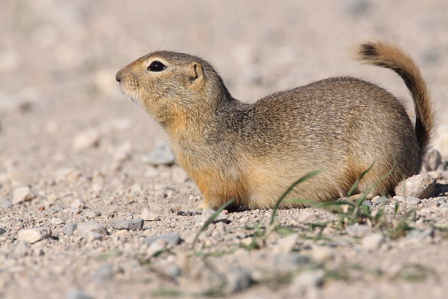 Richardson-Ziesel (Spermophilus richardsonii) near Sandy Lake Canada - Manitoba